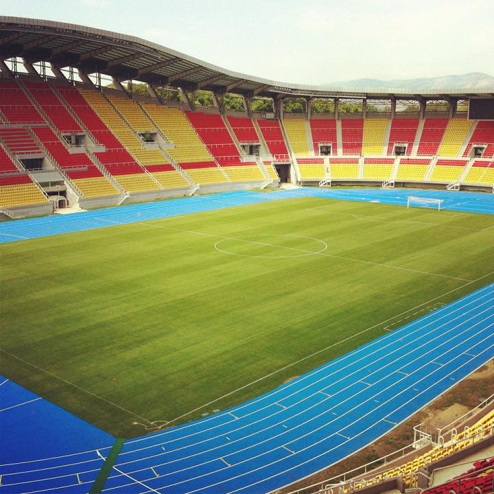 Photo of National Arena Filip II of Macedonia stadium from August 2012.